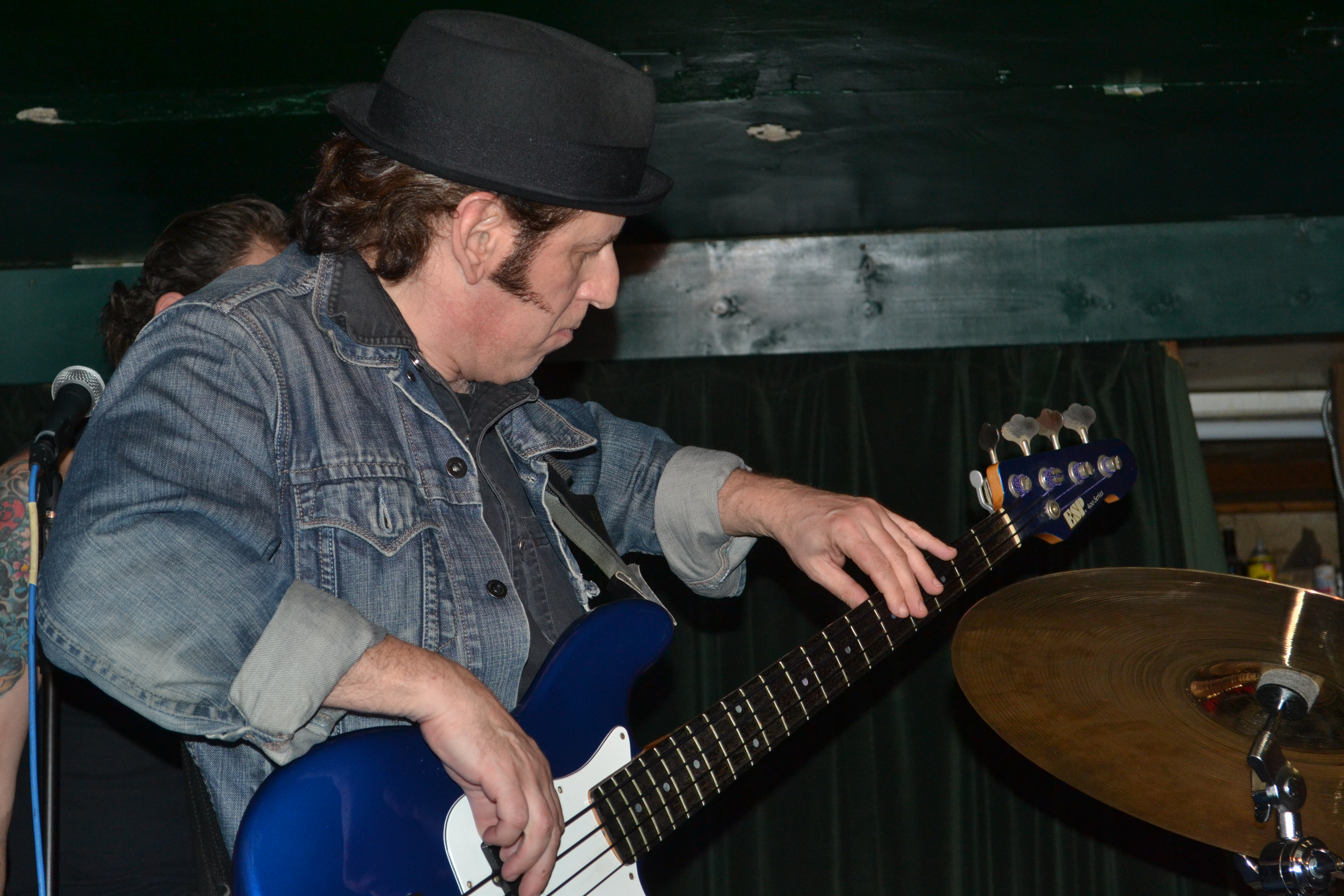 Kenny Aaronson